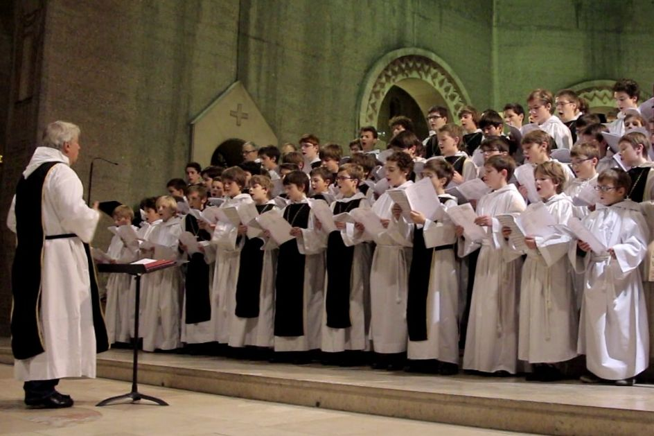 The Paris Boys Choir during a Christmas concert in 2012.